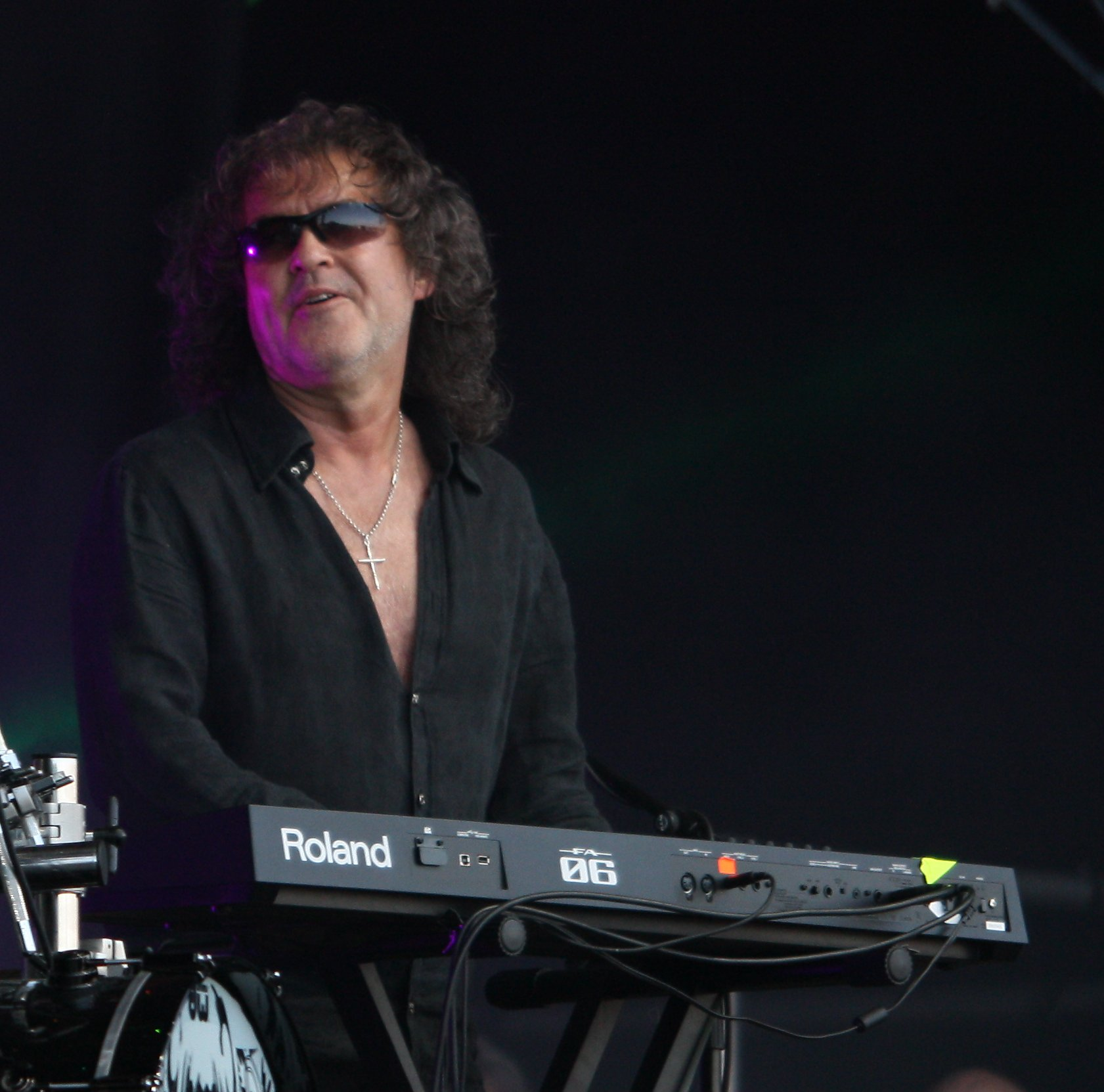 Thin Lizzie 2016 live on stage at Ramblin' Man Fair in Mote Park, Maidstone. The line up for this show was Ricky Warwick - lead vocals,acoustic guitar, Scott Gorham - guitar, Damon Johnson - guitar Tom Hamilton - bass guitar (Aerosmith), Scott Travis - drums, Darren Wharton - keyboards. They were joined for 4 songs by Midge Ure (Ultravox) who had toured with Lizzie on a 1979 US tour. The set was a tribute to Phil Lynott 30 years to the day after his death from alcohol poisoning and included Jailbreak, Boys are Back in Town, Thunder & Lightning, Dancing in the Moonlight, Rosalie, Cowboy Song, Chinatown, Killer on the Loose and a great crowd singalong of Whiskey in the Jar. Lizzie were second on the bill, but blew Whitesnake off the stage, as these guys can still cut it whereas Coverdale & co certainly cannot.